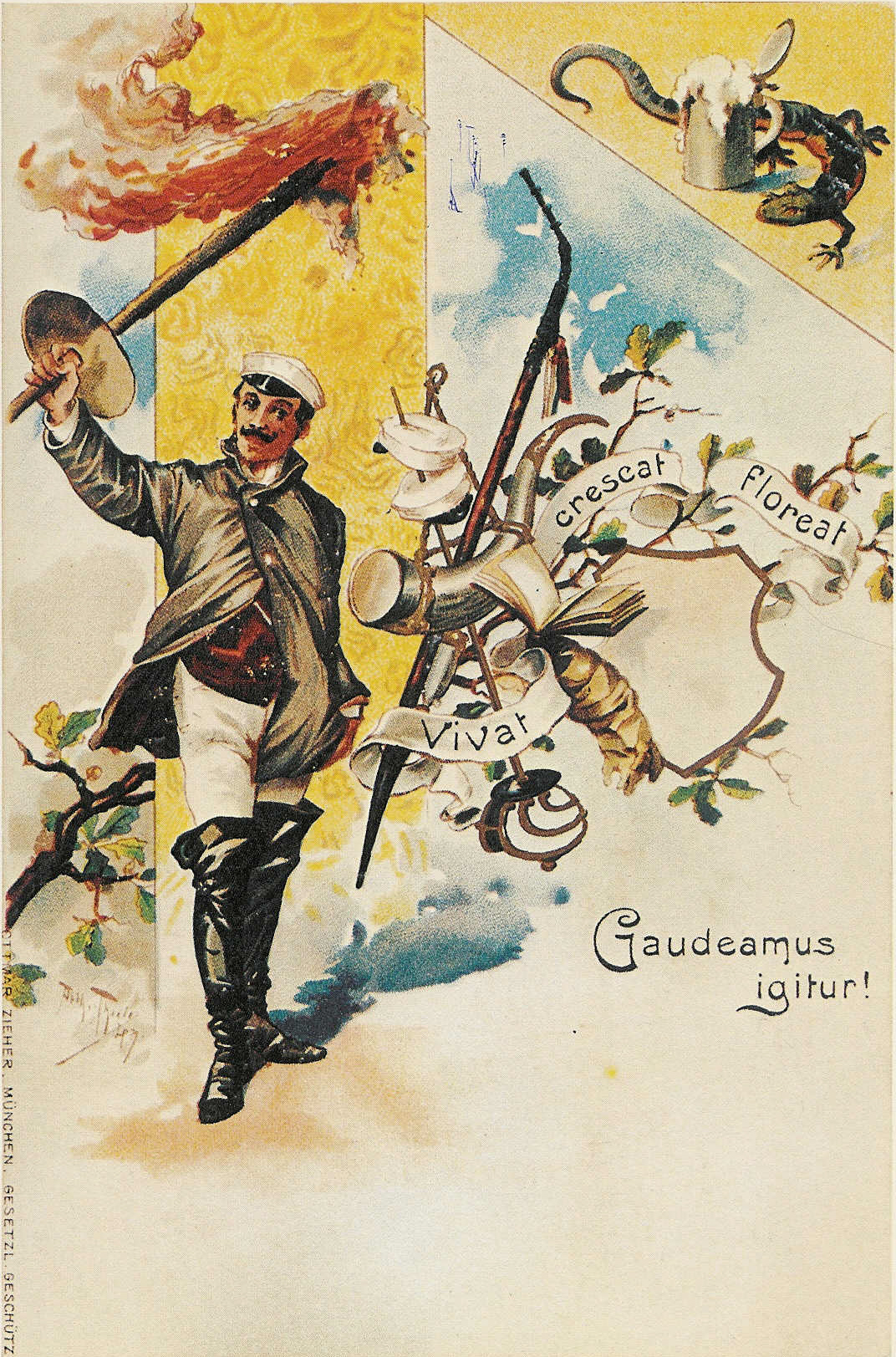 postal card with symbols of traditional German student life. Two Latin inscriptions: "Gadeamus igitur" and "Vivat, Crescat, Floreat"